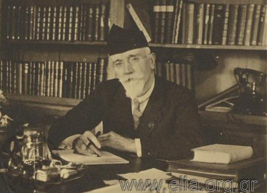 Greek Prime Minister Eleftherios Venizelos sitting at his desk in 1930.